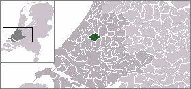 Location of Zoetermeer, Netherlands